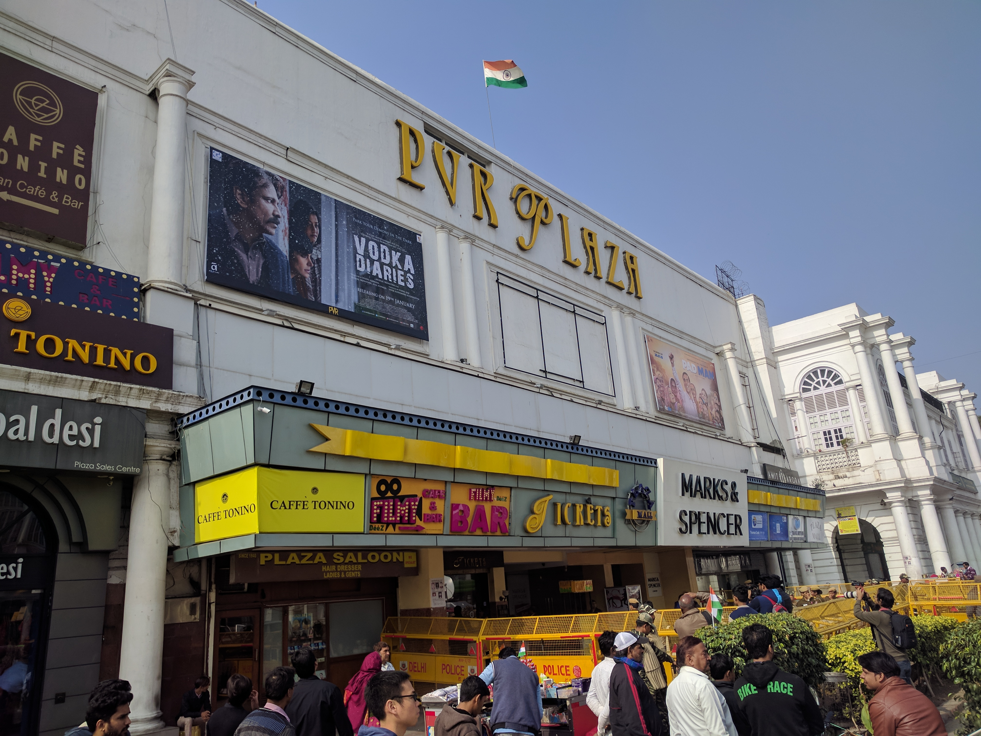 This photograph was taken just after the first show on the first day of Padmavat. Heavy police presence outside PVR Plaza, Connaught Place, New Delhi. Note that no poster has been put up for the show as was reported across the nation for many movie halls.